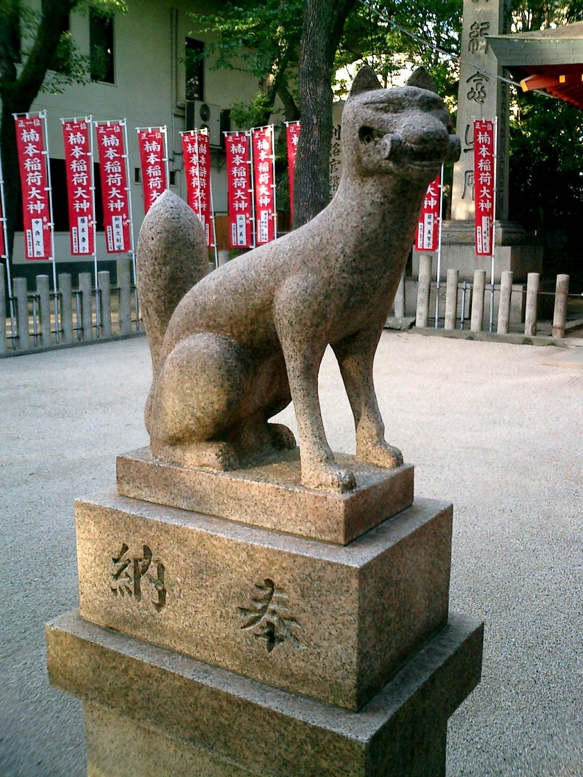 Ungyō, the right one, of a pair of stone fox statues at Kusumoto-Inari, in Minatogawa-jinja, Kobe.